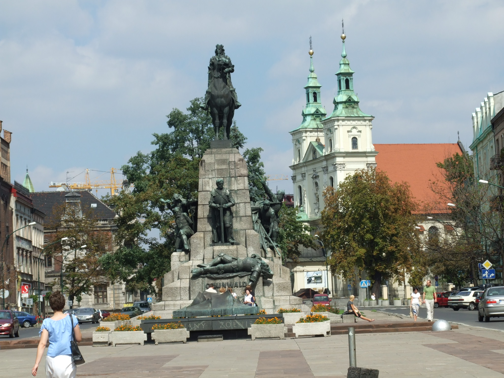 Grunwald Monument and St Florian's Church, Matejko Square, Kraków, Poland